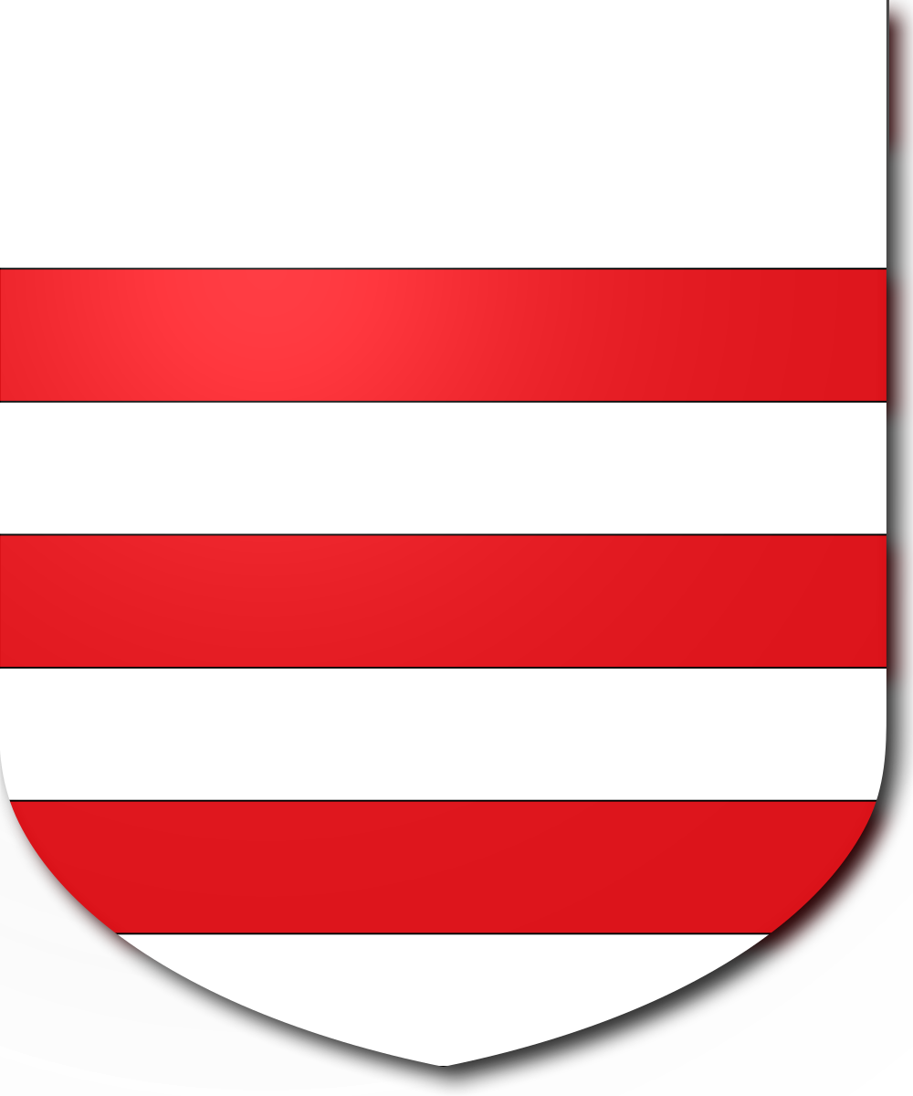 Alduini family shield